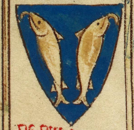 Henry II of Bar